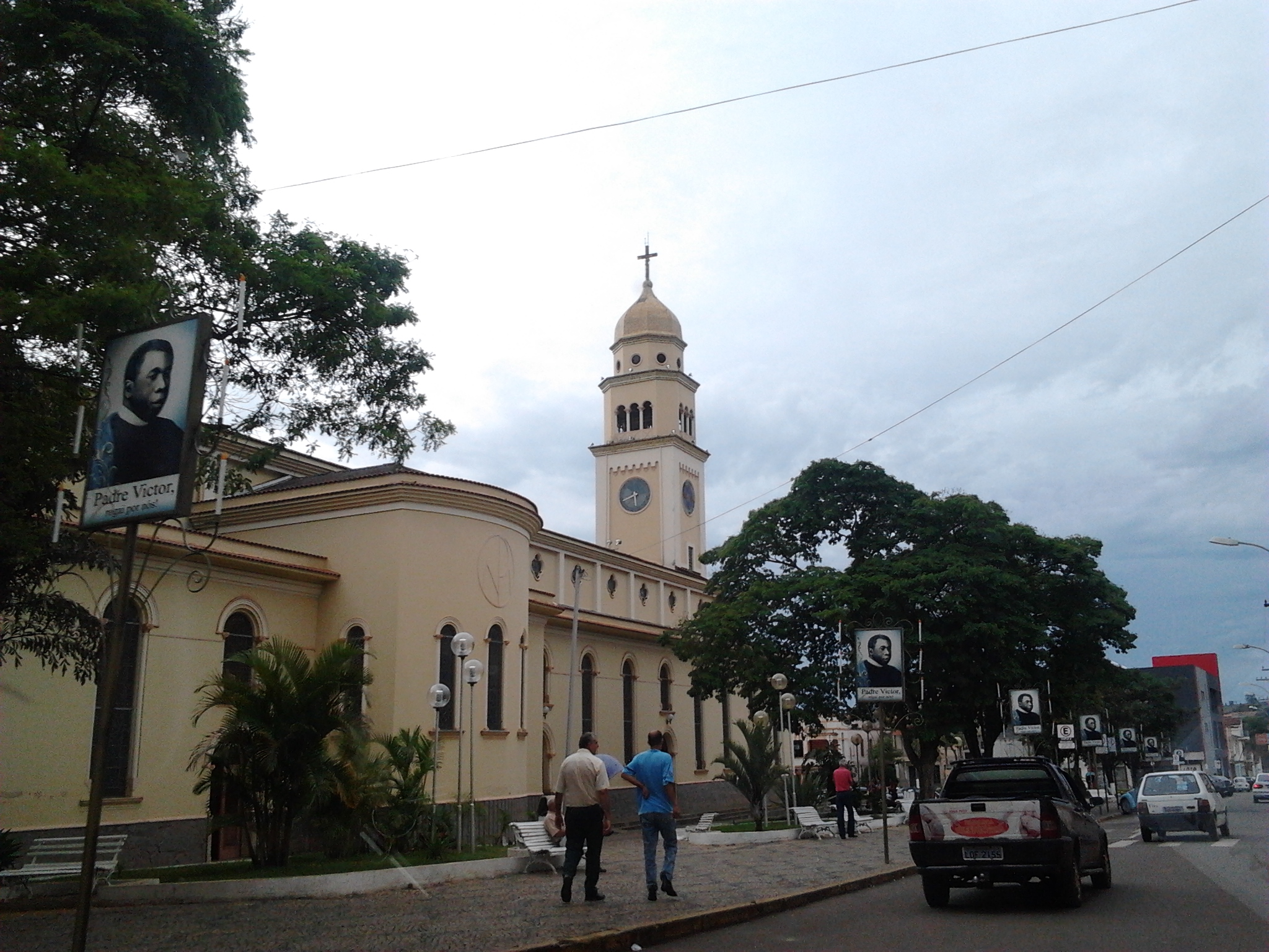 The bigger and main church in Três Pontas.